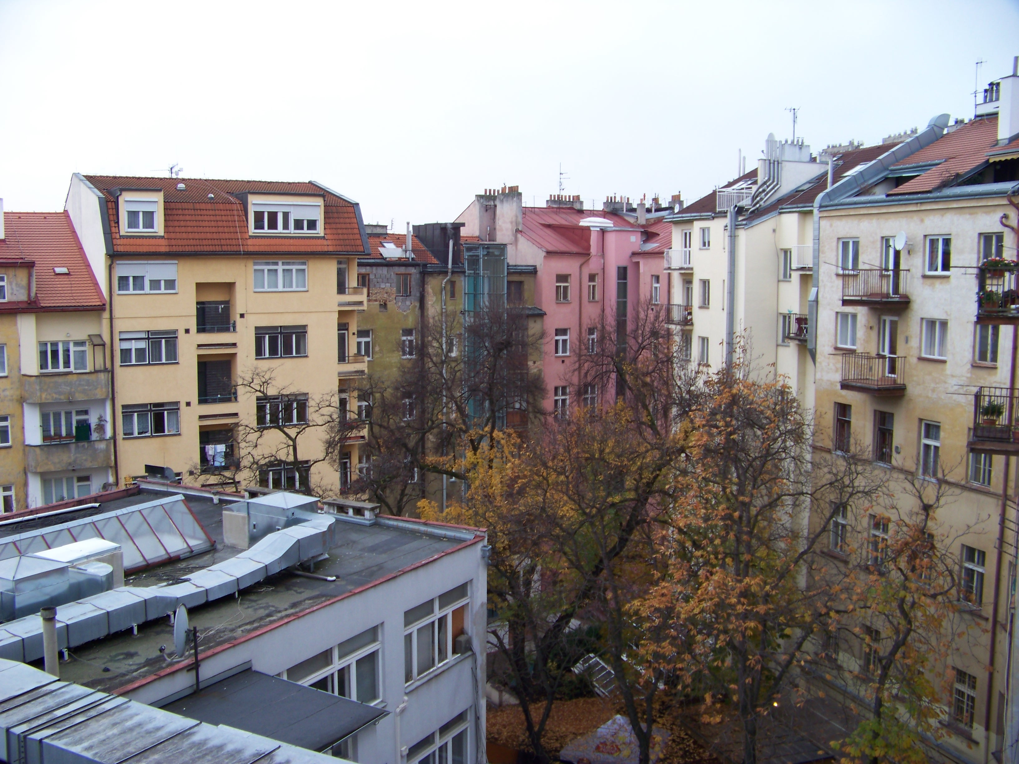 Prague-Vinohrady, Czech Republic. A court among Americká, Rumunská and Francouzská street. - OpenStreetMap (Info)